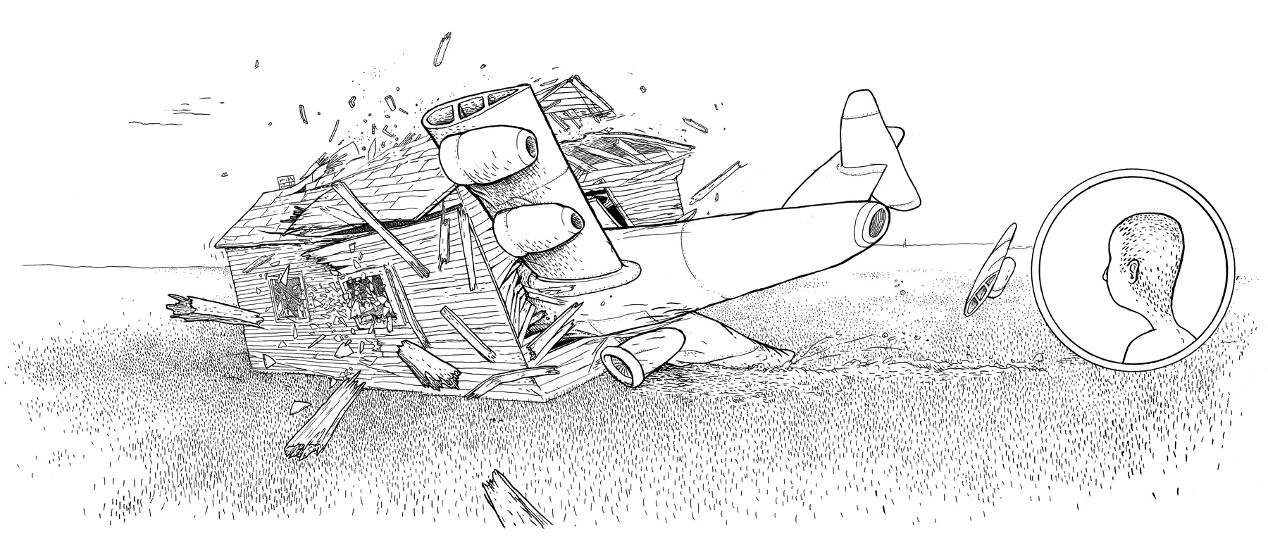 original comics page scanned with the permission from the artist